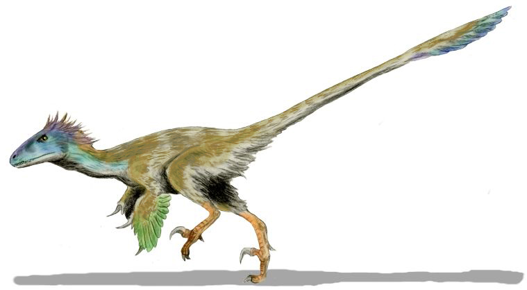 Utahraptor ostrommaysorum, a dromaeosaur from the Early Cretaceous of Utah, pencil drawing, digital coloring